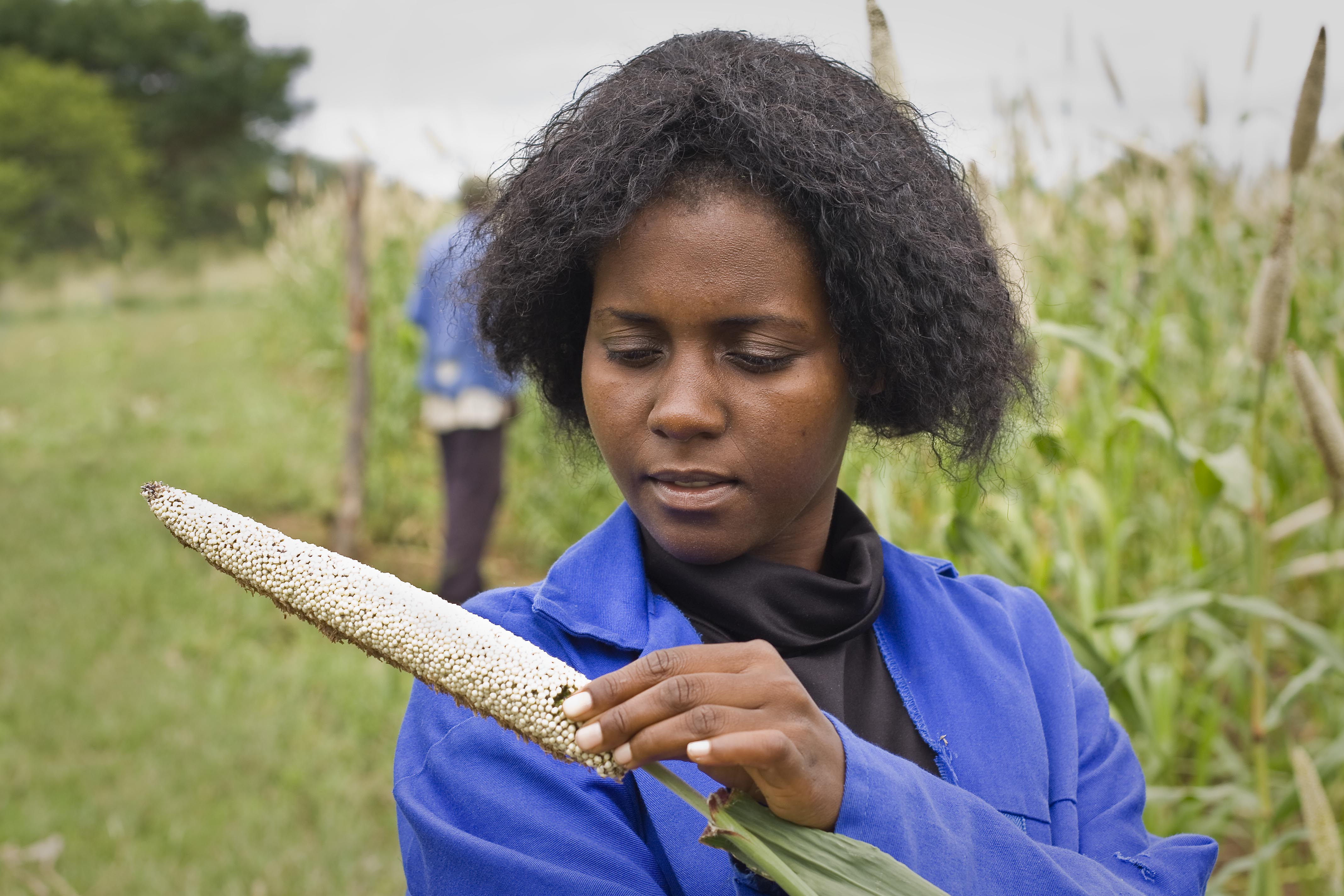 Nkazimulo Ngwenya, Scientific Officer at ICRISAT-Bulawayo, checks the pearl millet seed crop at Matopos Research Station in Zimbabwe.